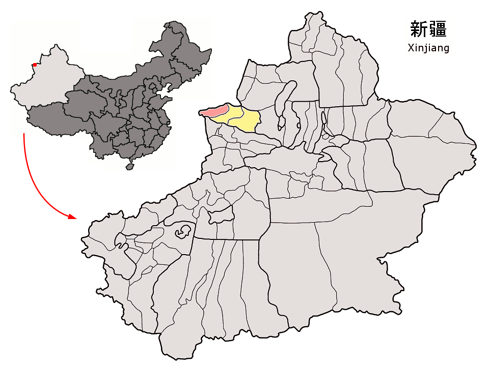 Location of Wenquan County (pink) and Börtala Prefecture (yellow) within Xinjiang autonomous region of China Map drawn in september 2007 using various sources, mainly : Xinjiang Uygur autonomous region administrative regions GIS data: 1:1M, County level, 1990 Xinjiang Counties map from